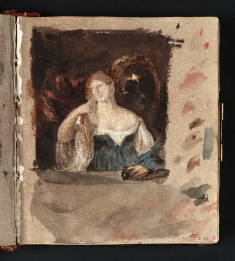 Woman with a Mirror, after Titian 1802 Joseph Mallord William Turner 1775-1851 Accepted by the nation as part of the Turner Bequest 1856